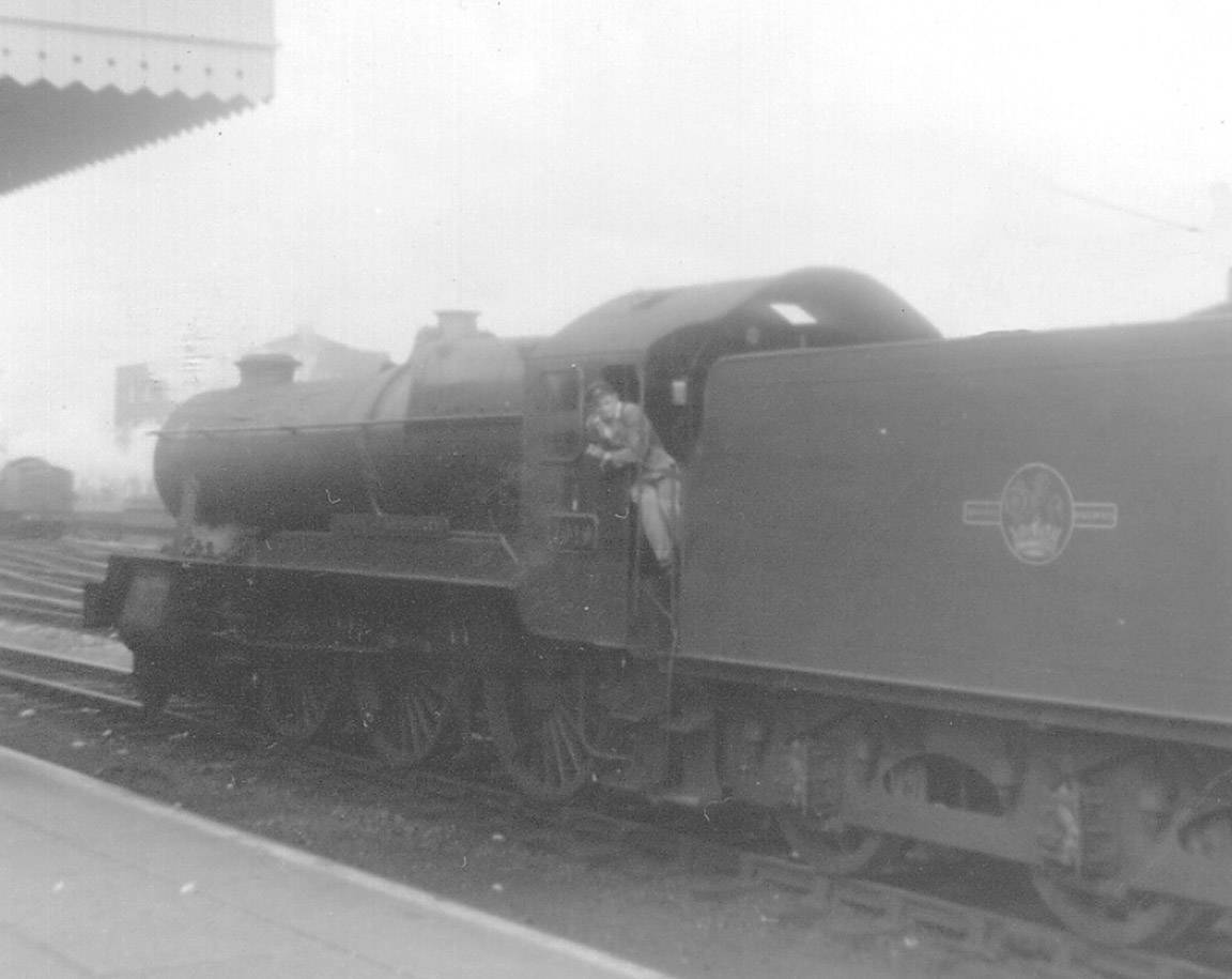 GWR 1000 ; GWR 1000s of British Railways